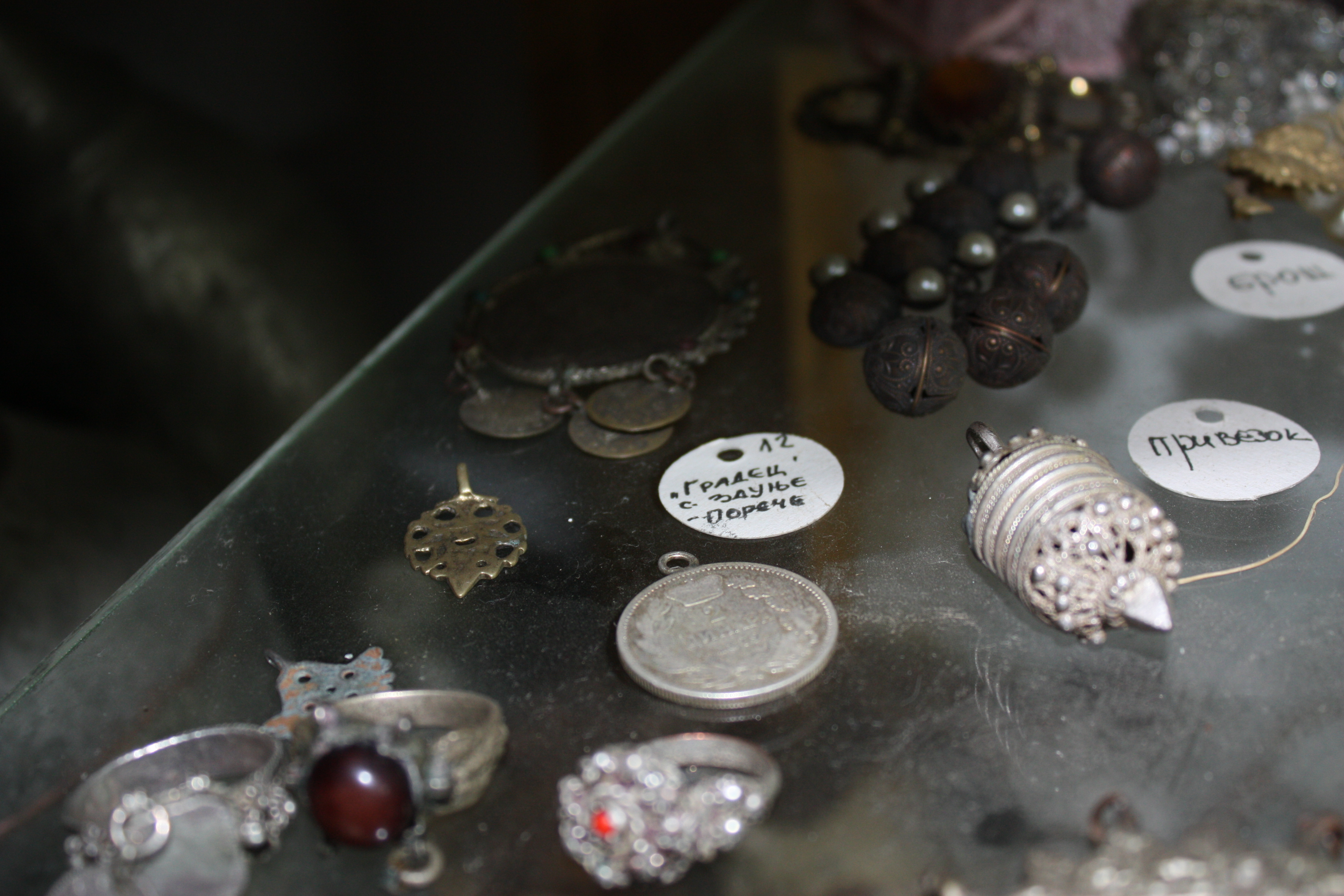 The World’s Smallest Ethnological Museum in Džepčište near Tetovo in Macedonia